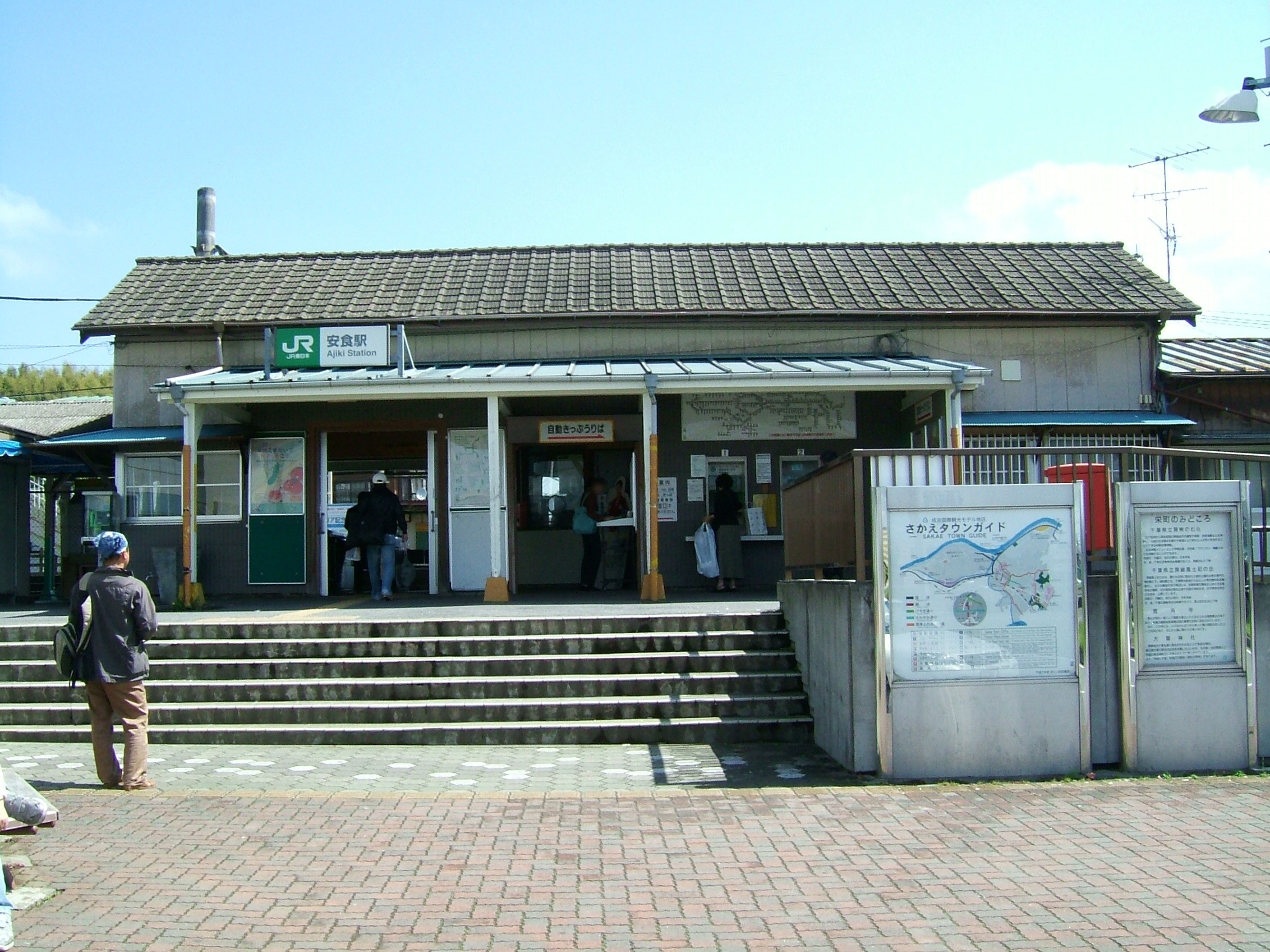 Ajiki Station building (East Japan Railway Narita Line)